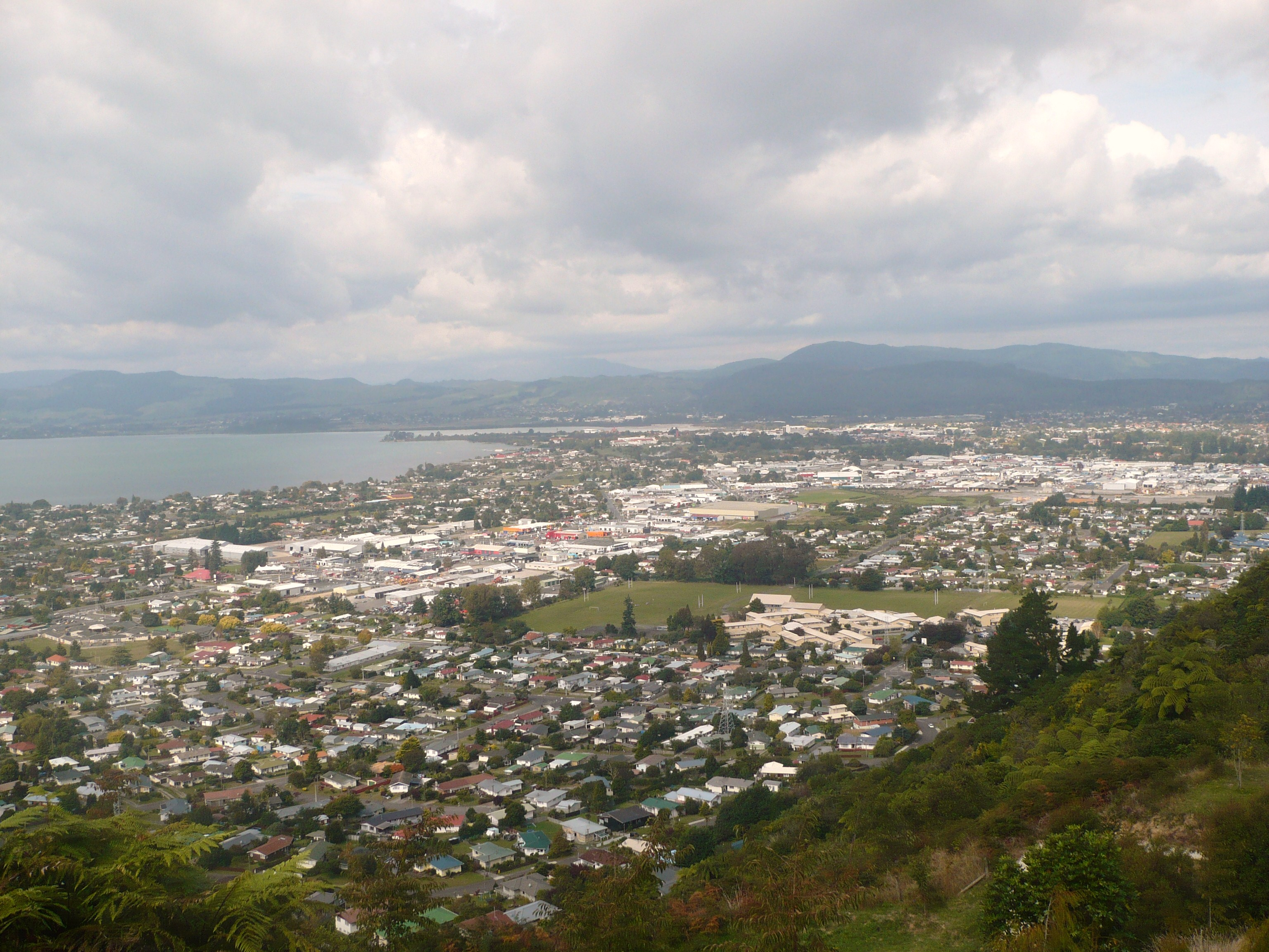 Looking south over Rotorua, New Zealand, from Mt Ngongotaha, north of the city.